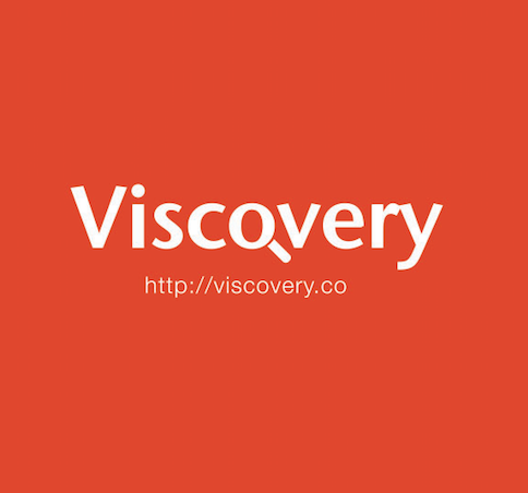 Viscovery logo